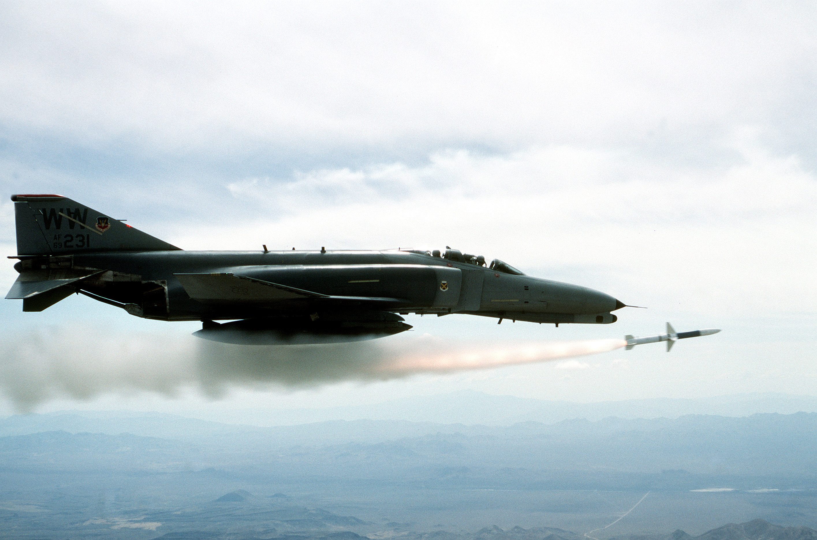 A U.S. Air Force McDonnell Douglas F-4G Phantom II aircraft (s/n 69-7231) of the 37th Tactical Fighter Wing launches an AGM-45 Shrike missile near George Air Force Base, California (USA) on 1 August 1988. This aircraft was retired to the AMARC as FP0838 on 17 April 1992 and later converted to an QF-4G drone.